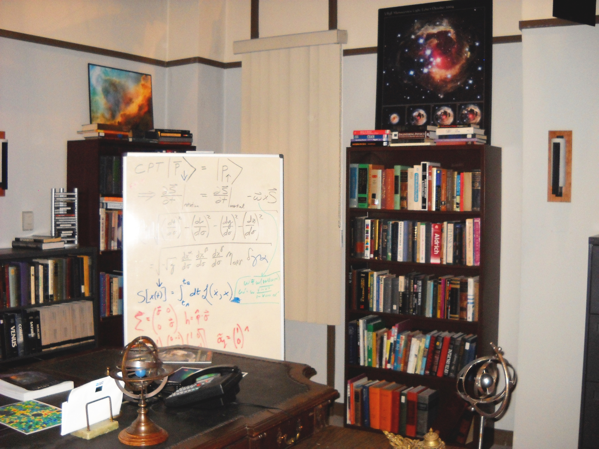 The Big Bang Theory sets at the Warner Bros. Studios, Burbank.